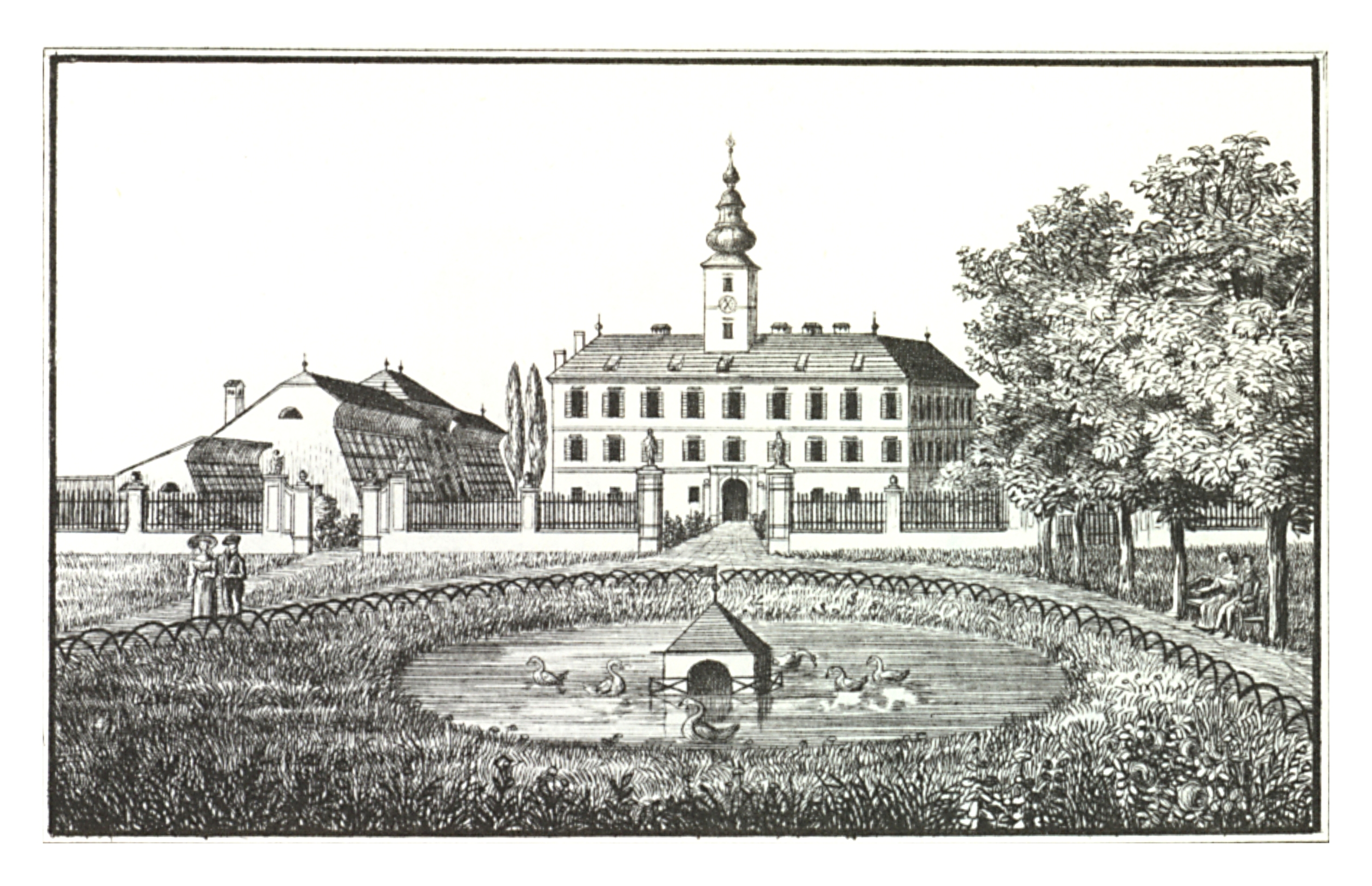 J. F. Kaiser - lithographirte Ansichten der Steyermärkischen Städte, Märkte und Schlösser Graz, 1825 Joseph Franz Kaiser (1786–1859) Alternative names J. F. KaiserDescriptionAustrian printer and editorDate of birth/death 11 March 1786 19 September 1859Location of birth/death Graz (Styria) GrazAuthority control : Q1499963 VIAF: 30629353 ISNI: 0000 0000 3083 0153 LCCN: n87141671 GND: 129880159 NLP: A24960305 WorldCat creator QS:P170,Q1499963 Scanprojekt Community Projektbudget 2012 This scan or this PDF-file was created within the GLAM-project Bookscanning, supported by Wikimedia Germany and Wikimedia Austria as a part of the community-project to capture books, documents and pictures which are not eligible to copyright or for which the copyright has expired. This document describes or depicts an object which is located in Austria today. Send requests for uncompressed scans to Hubertl. This work is in the public domain in its country of origin and other countries and areas where the copyright term is the author's life plus 100 years or fewer. You must also include a United States public domain tag to indicate why this work is in the public domain in the United States. This file has been identified as being free of known restrictions under copyright law, including all related and neighboring rights.